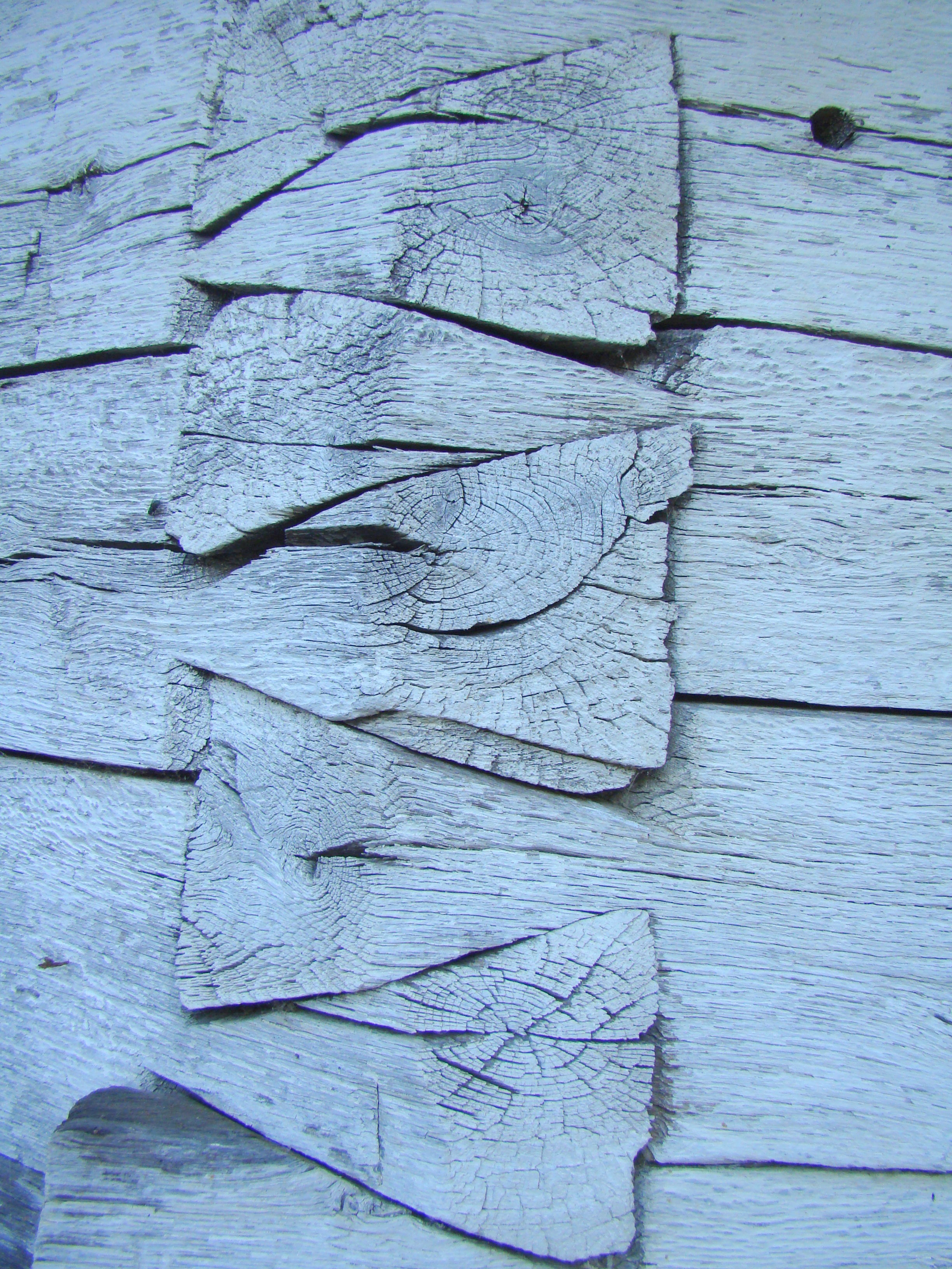 Wooden church in Crasna-Ungureni, Gorj county, Romania